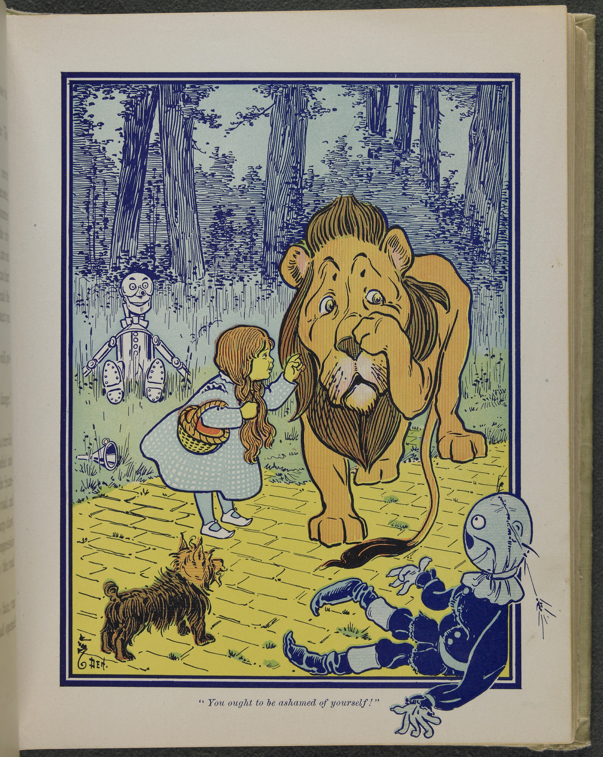 Dorothy meets the Cowardly Lion, from The Wonderful Wizard of Oz first edition.